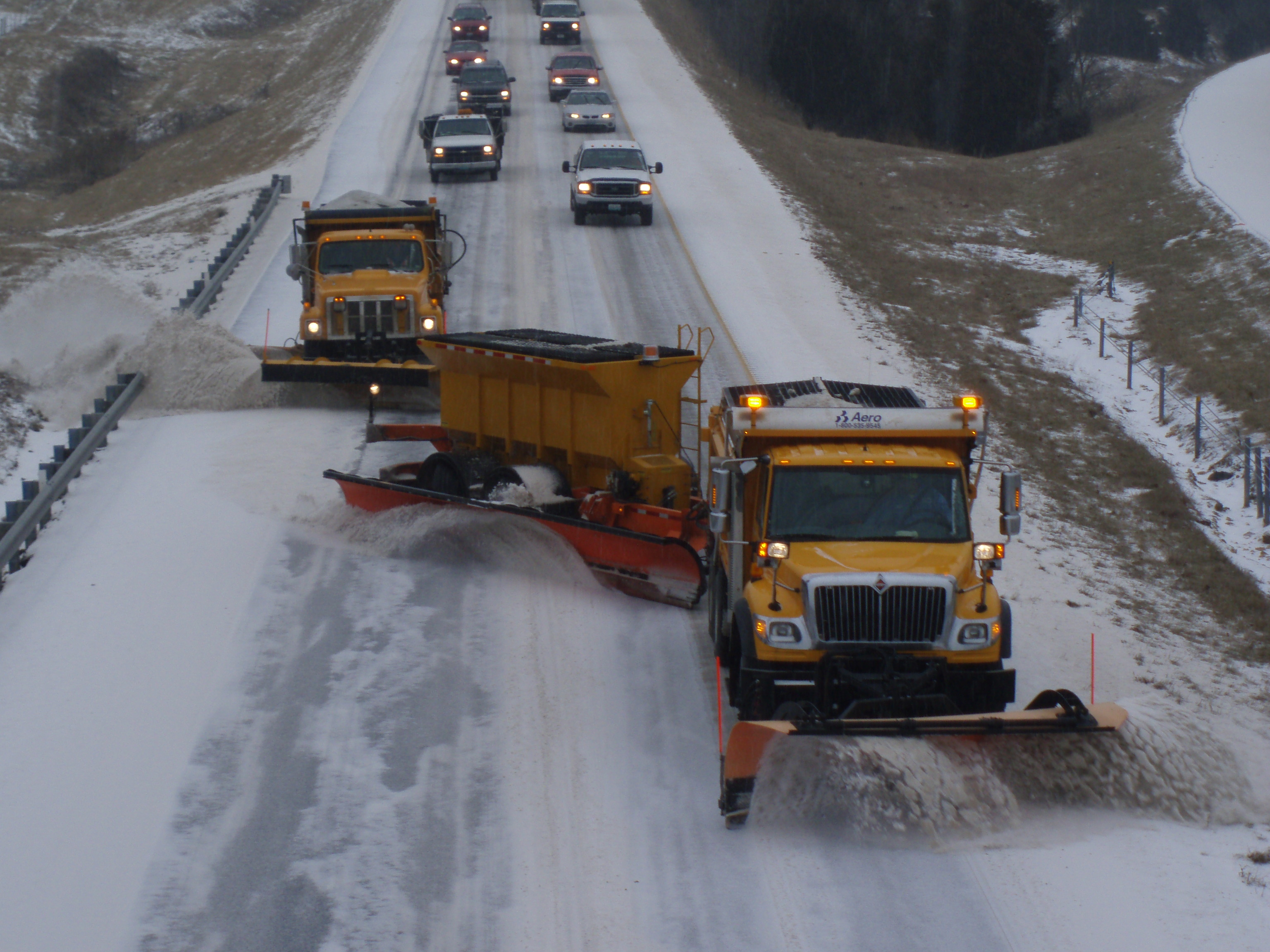 TowPLow truck plowing two lane interstates in Missouri. (The front truck is an International 7400 (now WorkStar), rear truck is an International S2600)